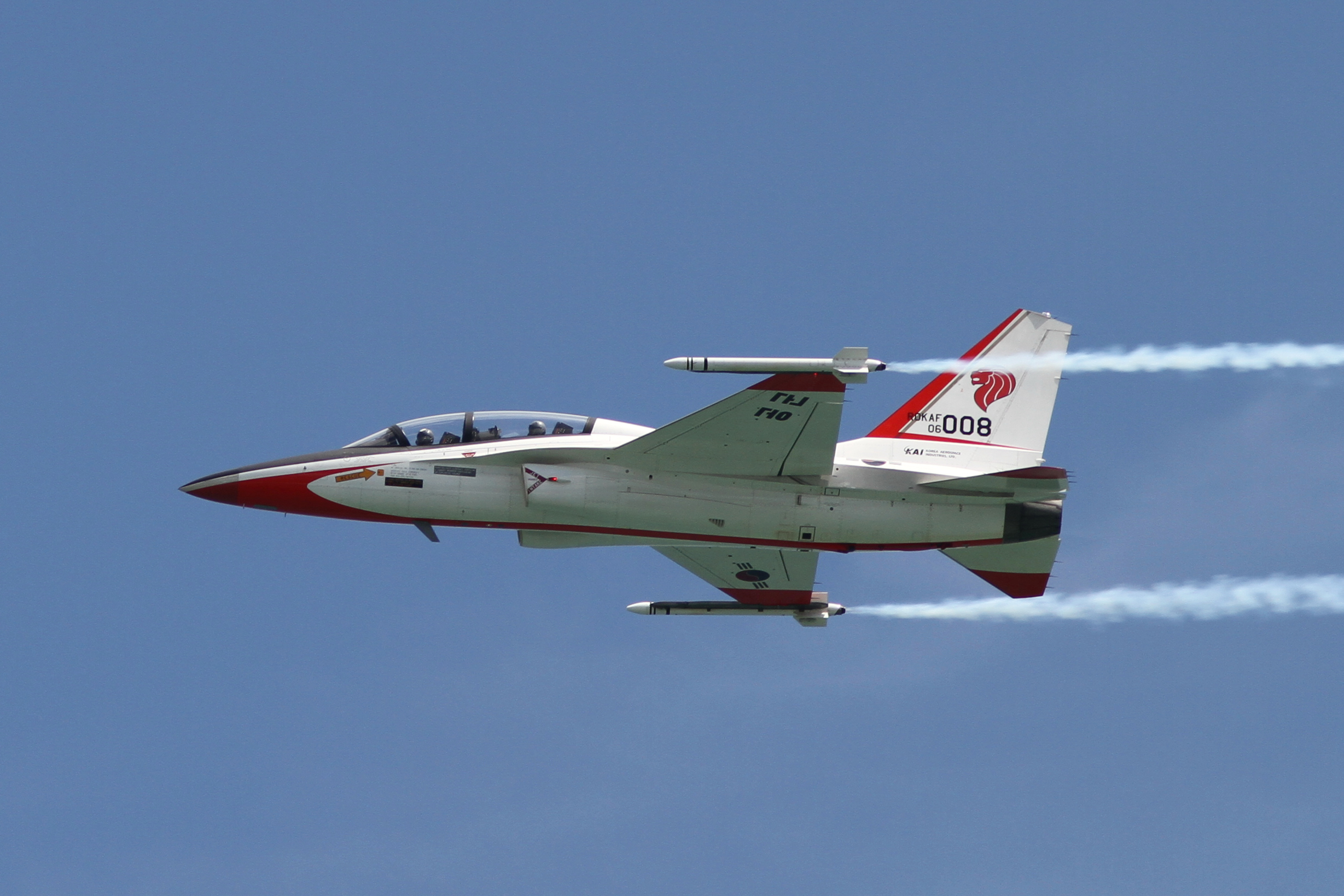 Singapore Airshow 2010, Republic of Singapore Air Force (RSAF)